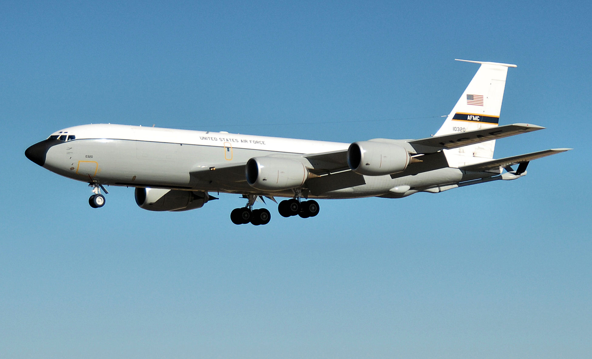 418th Flight Test Squadron - Boeing KC-135r-BN Stratotanker 61-0320 flies over Edwards after making first ever successful air-to-air refueling with an F-35 Mar 12, 2008. Contact was for handling and systems evaluation only, no fuel was transferred. In 2009 was designated NKC-135R (Air Force photo by Senior Airman Julius Delos Reyes)